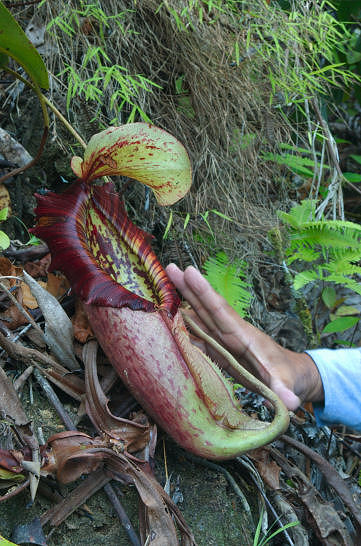 Nepenthes northiana